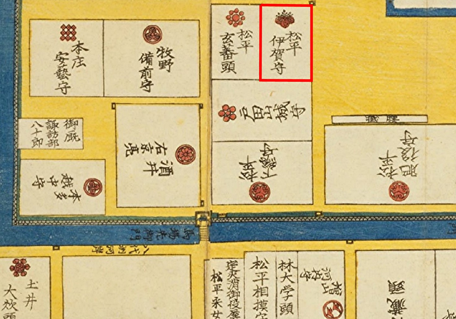 REsidence of Fujii-Ueda at Edo